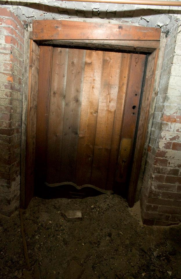 Door in a smuggling tunnel under the Downing Block in which runaway slaves could hide behind and be quartered for the night.